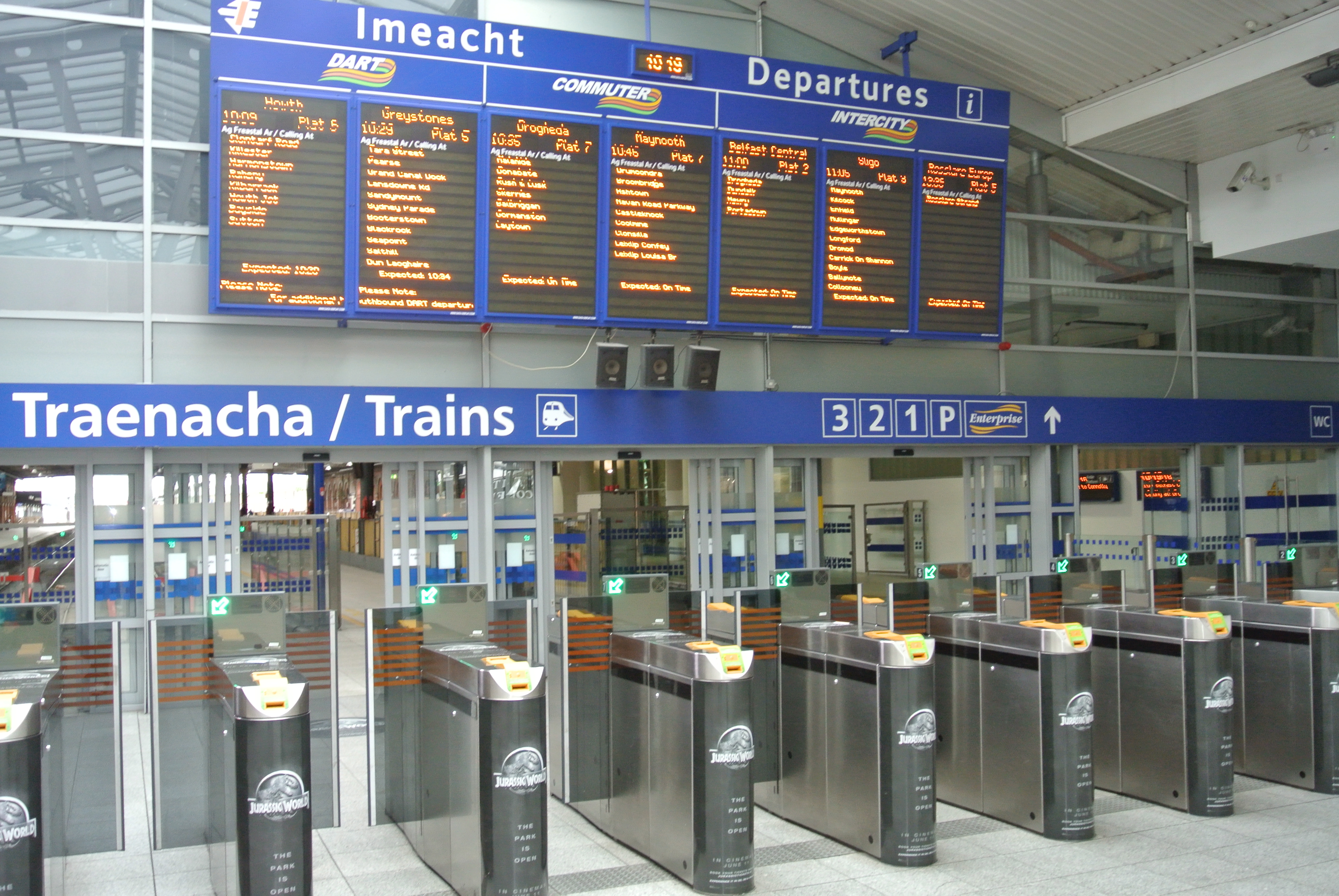 Departure Screen at Connolly Station, Dublin, Ireland